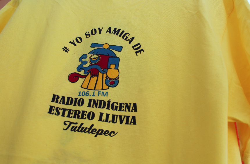 Camiseta con logo